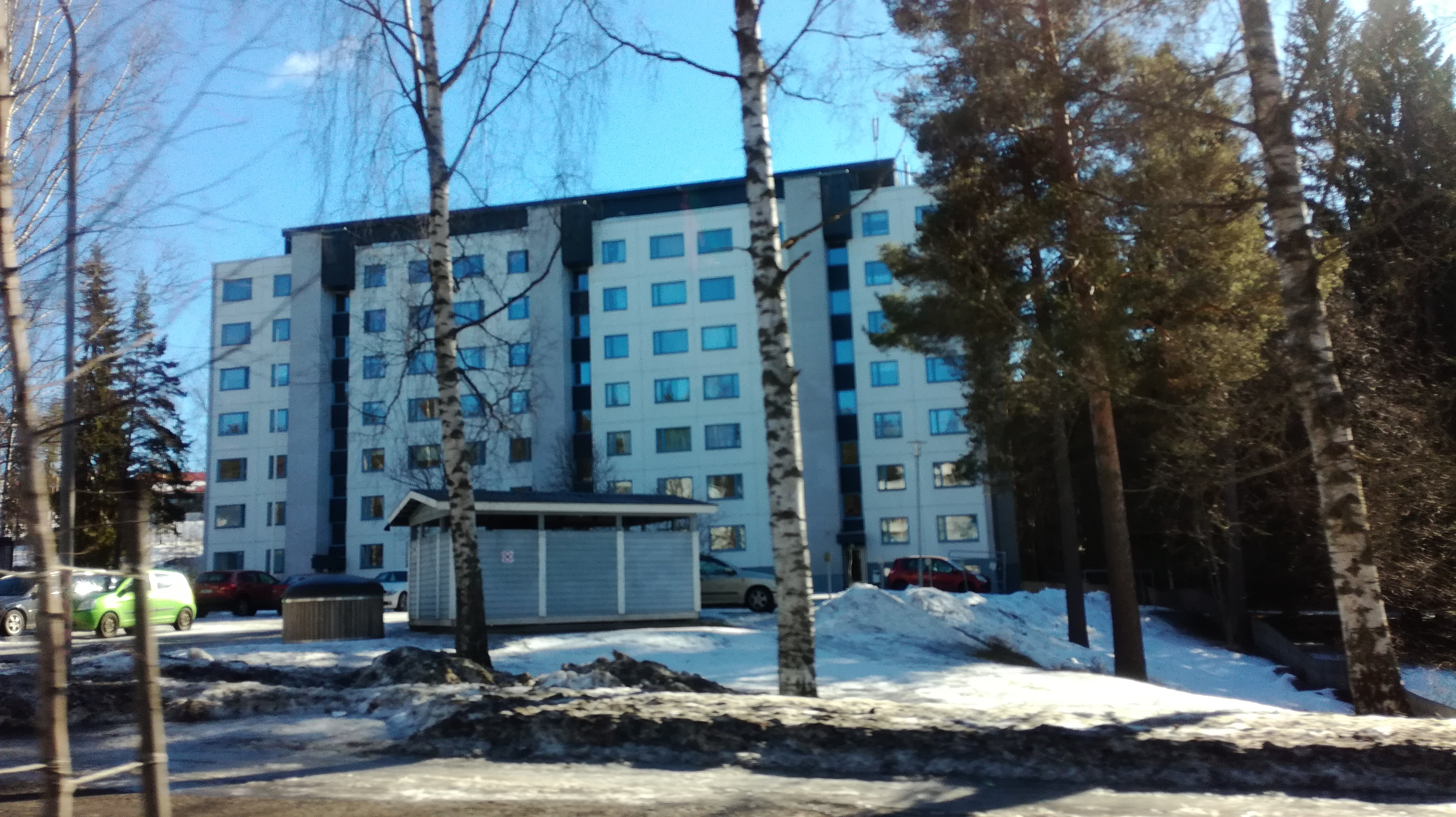 An apartment building in Kangasvuori